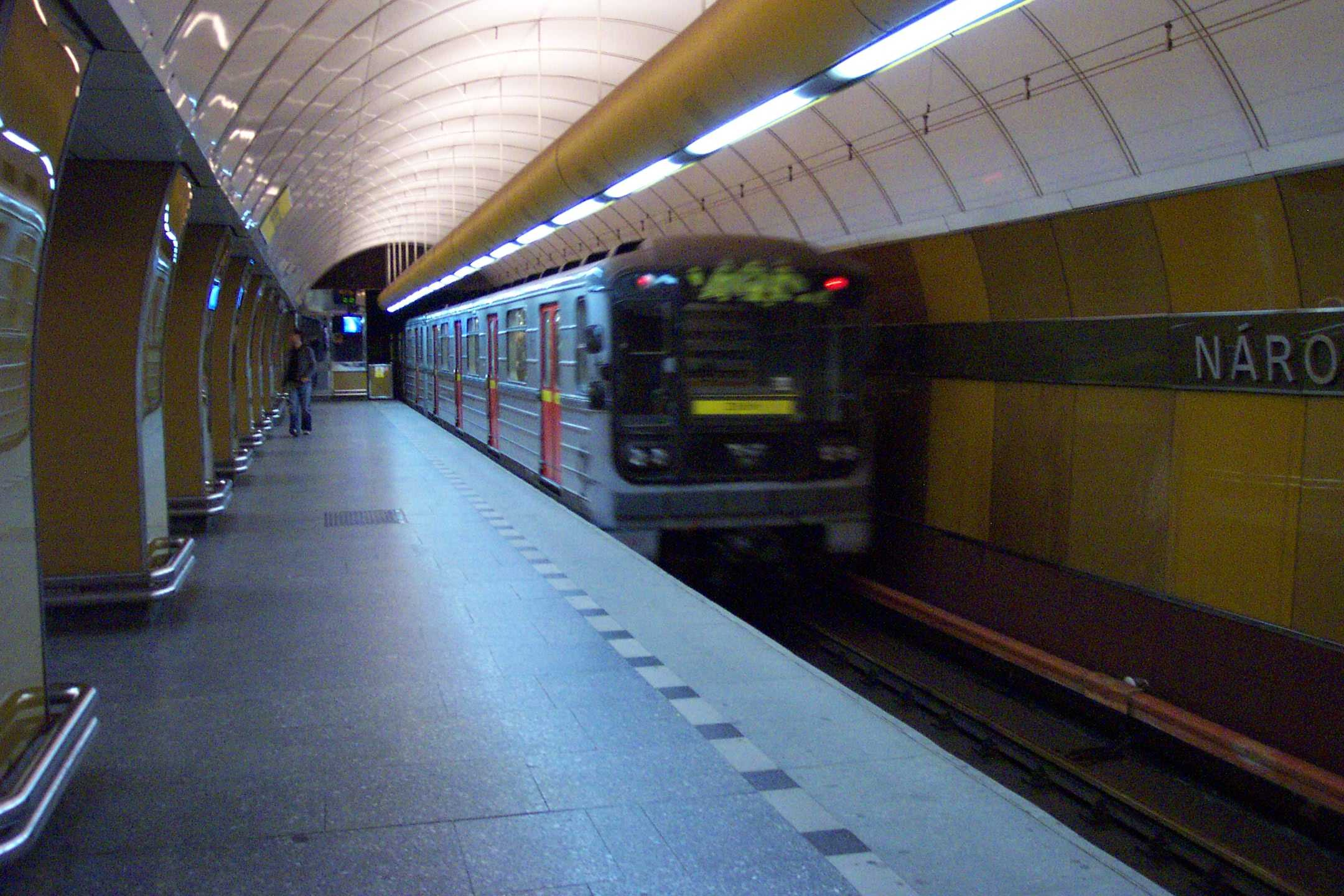 Metro train departing Národní třída station, Prague, CZ